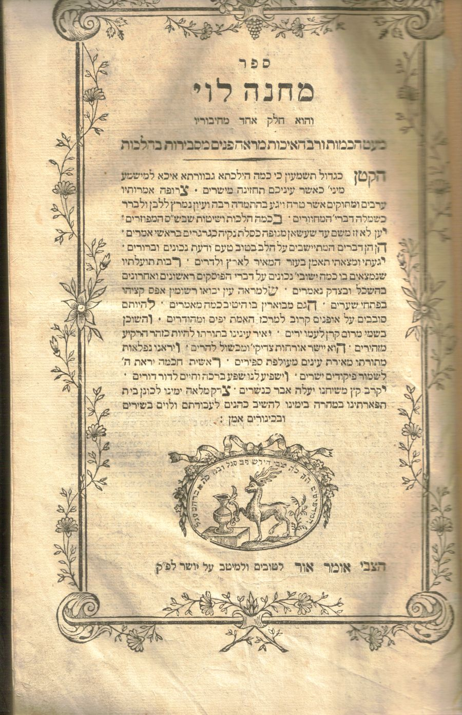 Mahane Levi, 1st ed. 1901